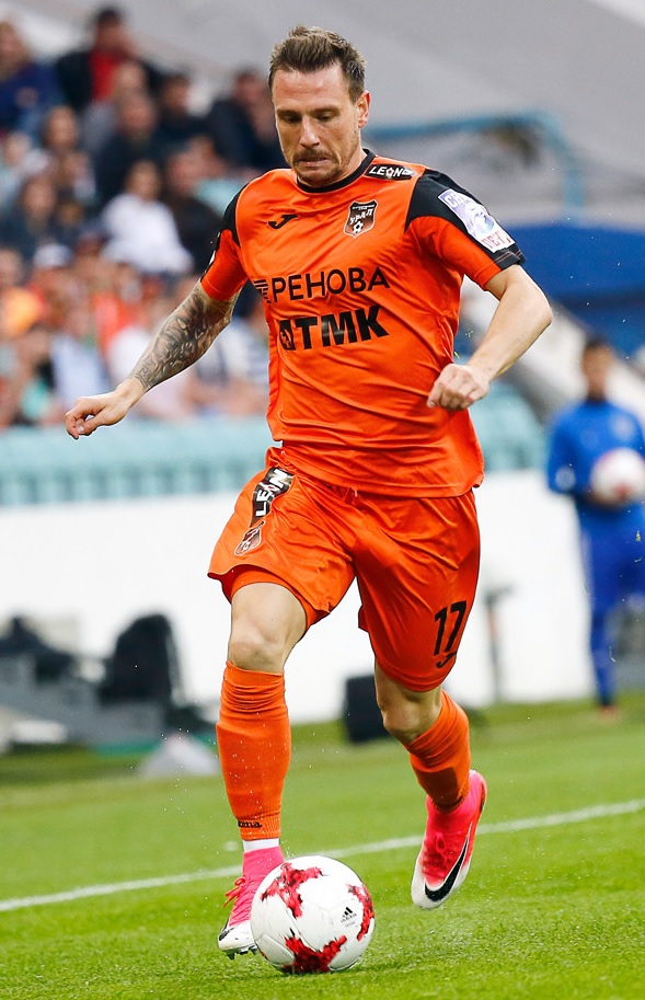 Nikolay Dimitrov with FC Ural Yekaterinburg in the Russian Cup Final game against FC Lokomotiv Moscow.